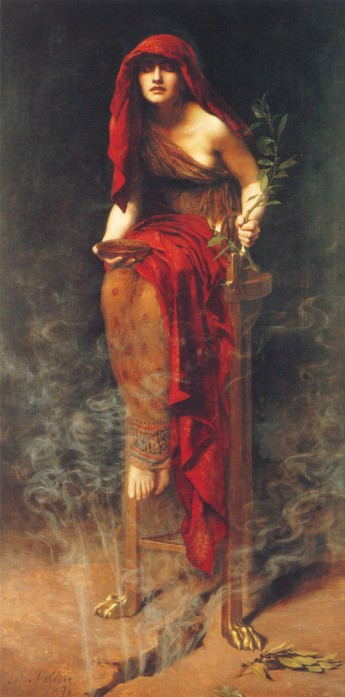 The priestess of the oracle at ancient Delphi, Greece.